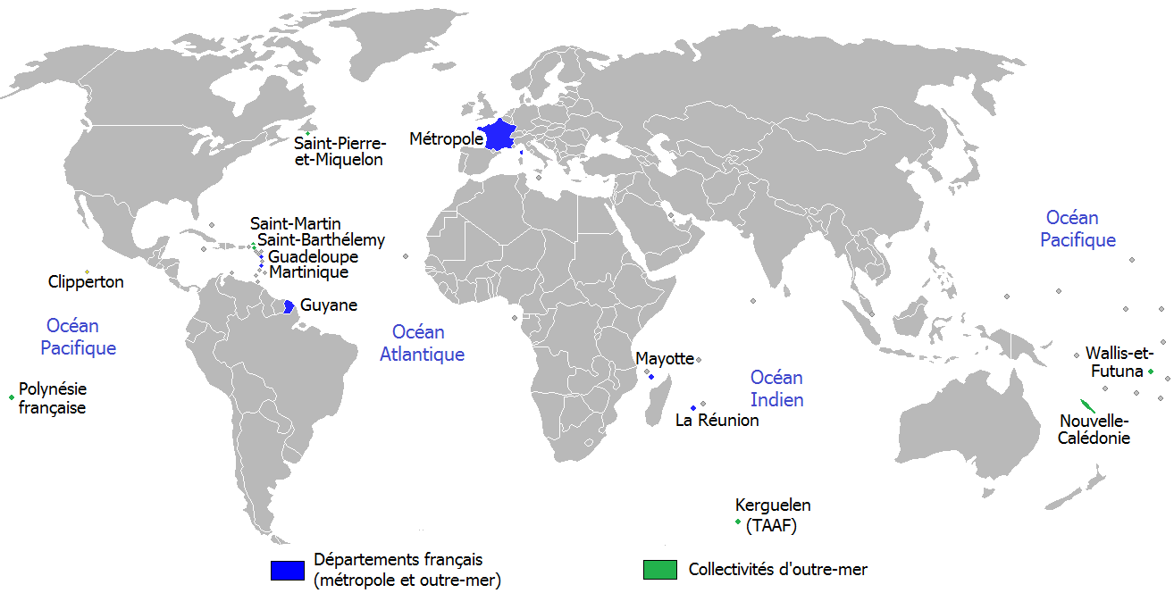 Map of the french oversee territories.